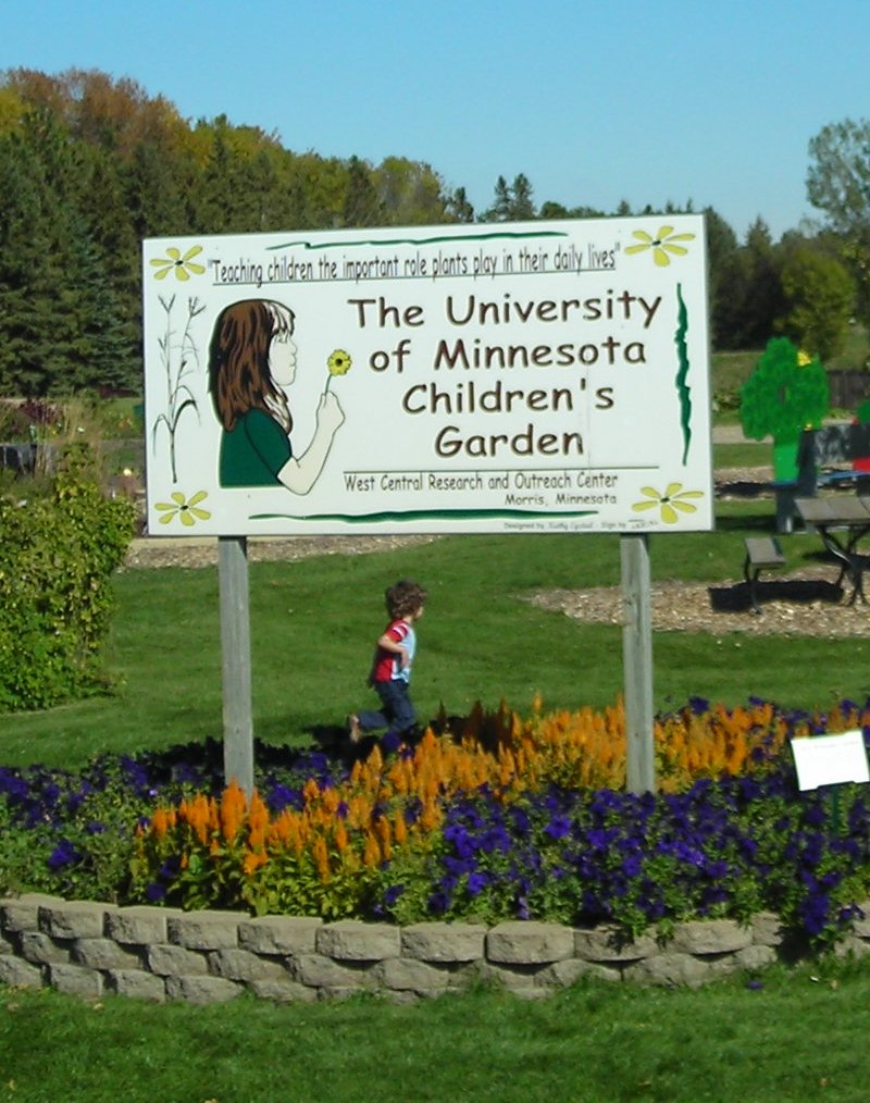 Children's garden at the West Central Research and Outreach Center run by the University of Minnesota in Morris, Minnesota, United States.